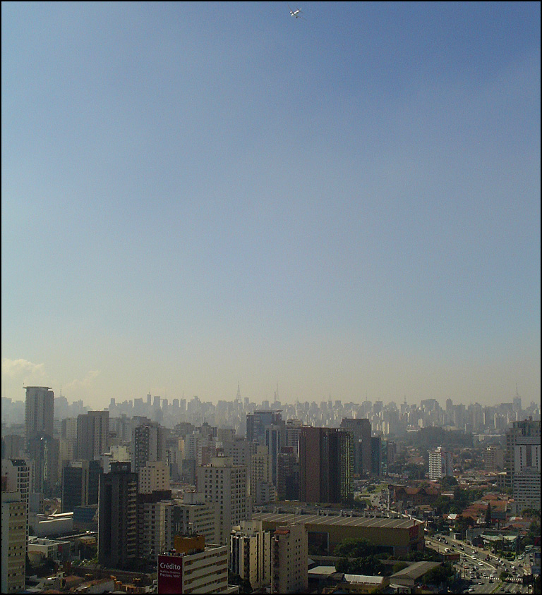 Sao Paulo's Juscelino Kubitschek avenue, seen from Faria Lima avenue.